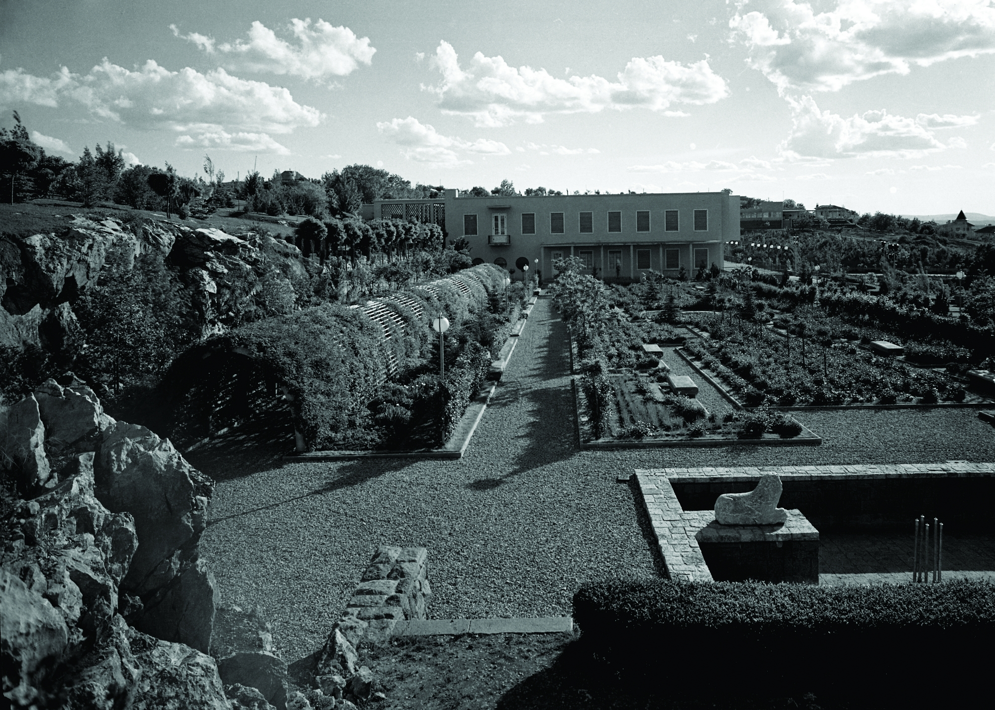 Presidential Villa was built between the years 1930 and 1932. Holzmeister sometimes wrote down his observations regarding the construction of the Villa, his encounter with Atatürk and conversations they held with each other; and sometimes he passed his memories to others: “Once I hesitated to make a choice between two solutions, I said ‘Your Excellency shall decide.’ He looked at me and said: ‘Which one of us is the architect here? You are, therefore you will make the decision....’ If contractors, statesmen, powerful politicians, presidents... If they had taken a similar stance to Atatürk’s, today Europe’s architectural outlook would have been much better.” Cumhurbaşkanlığı Köşkü, 1940’lı yıllar. Cumhurbaşkanlığı Köşkü, 1930-1932 yılları arasında gerçekleştirildi. Holzmeister, Köşk’ün yapım sürecinde Atatürk’le karşılaşmasını, aralarında geçen konuşmaları, izlenimlerini bazen yazmış bazen başkalarına anlatmıştır. “İki ayrı çözüm şeklinde tereddüt ettiğimde, ‘Siz ekselânsları karar vermeniz gerekiyor.’ dedim. Bana şöyle bir baktı ve dedi ki: ‘İkimizden hangisi mimar, siz mi yoksa ben mi? Mimar olan sizsiniz, onun için kararı siz vereceksiniz… İnşaat sahipleri, devlet adamları, güçlü politikacılar, cumhurbaşkanları… Eğer Atatürk’ün verdiği örnekte olduğu gibi davransalardı, yani ‘başkan olarak ben değil, mimar olarak sen’ diyebilselerdi, bugün Avrupa’nın mimari görünümü çok daha iyi olurdu.”